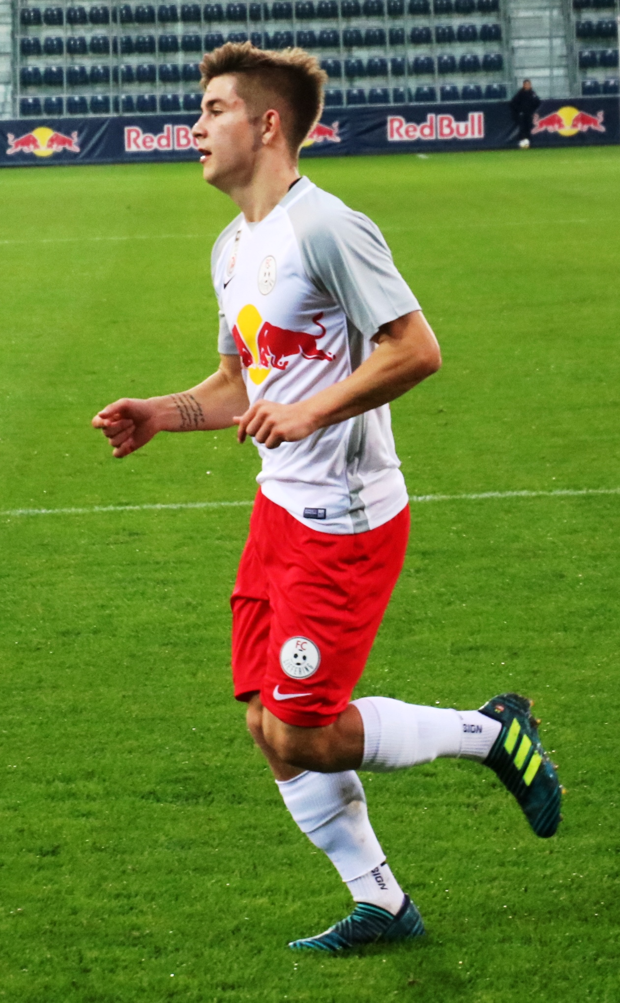 league match Austria 2nd league